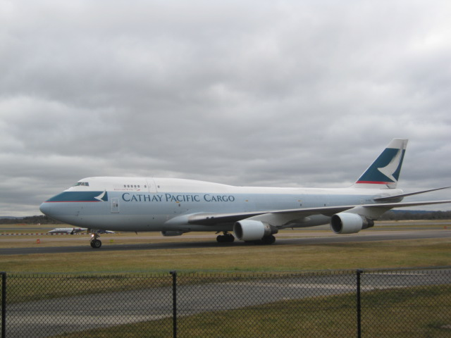 Cathay Pacific Cargo at Manchester Airport